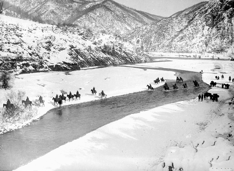 THE RETREAT OF THE SERBIAN ARMY TO ALBANIA, 1915 (Q 52328) Serbian cavalry crossing the Black Drin River during the retreat to the Adriatic Sea Coast, November-December 1915. Copyright:© IWM. Original